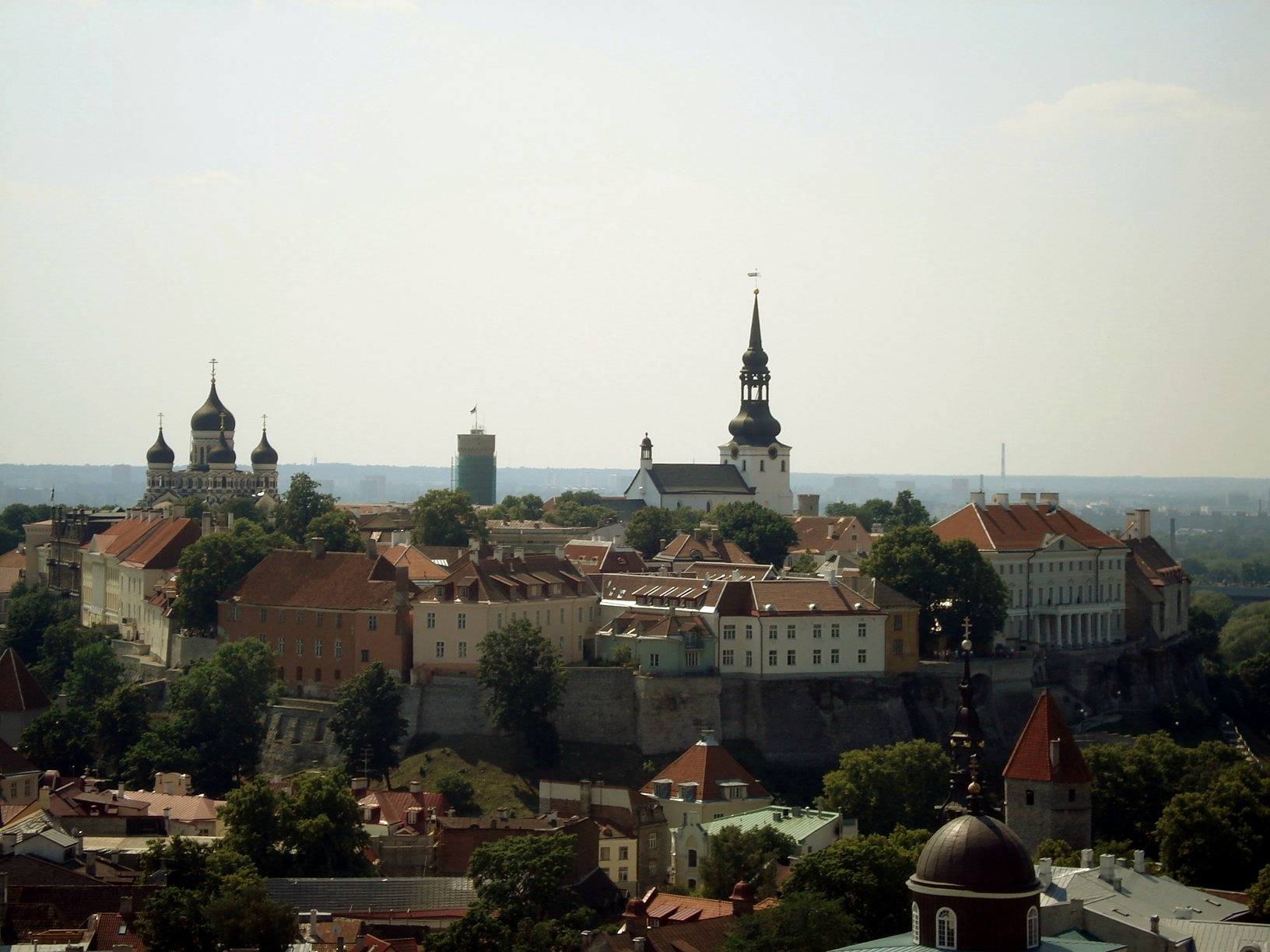 Toompea hill in Tallinn - view from St. Olaf's church tower.